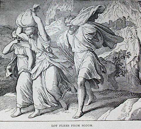 This site will state my case for me. It is from the site I got the image on.